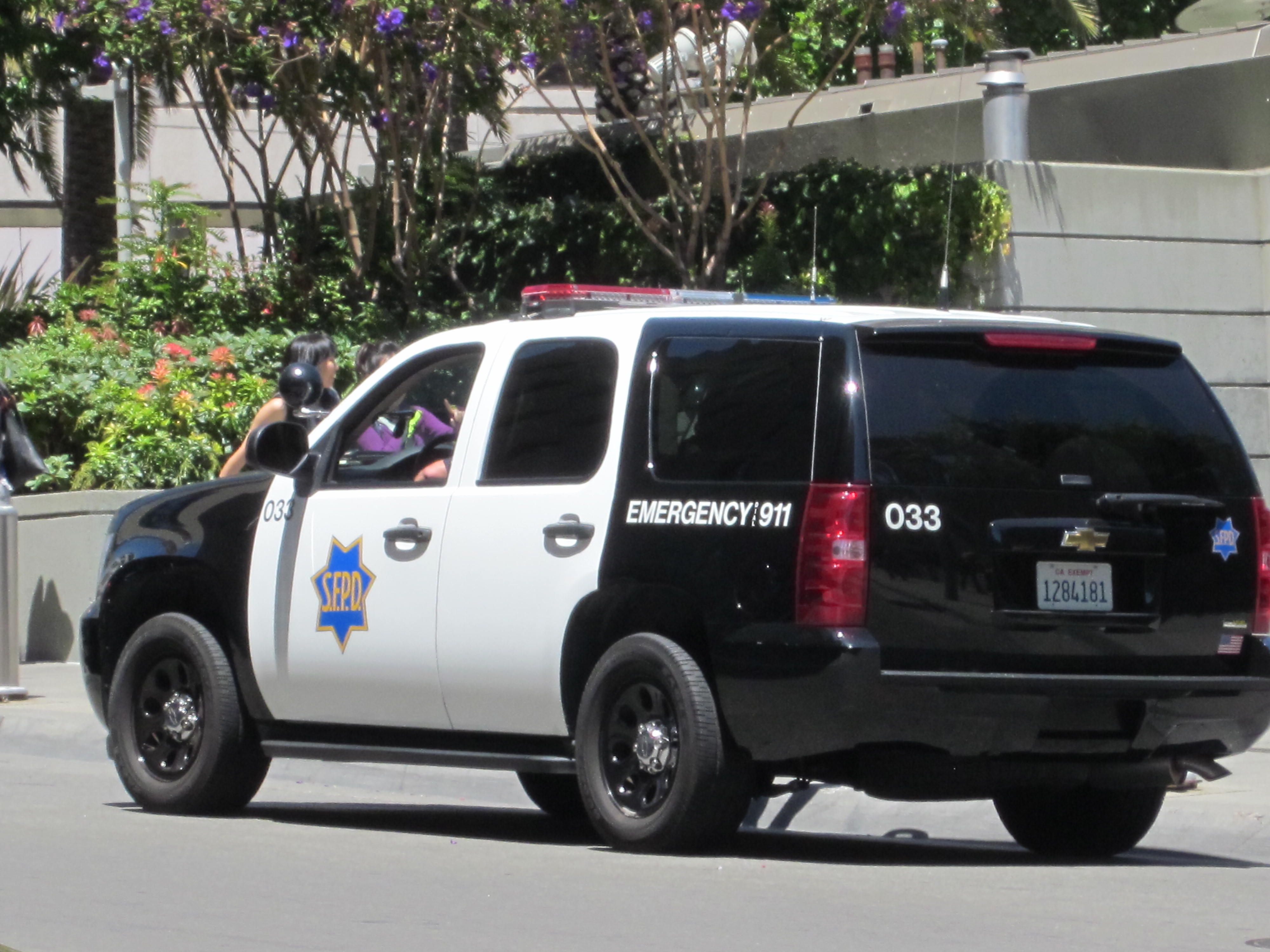 A SFPD Chevrolet SUV on Powell Street.